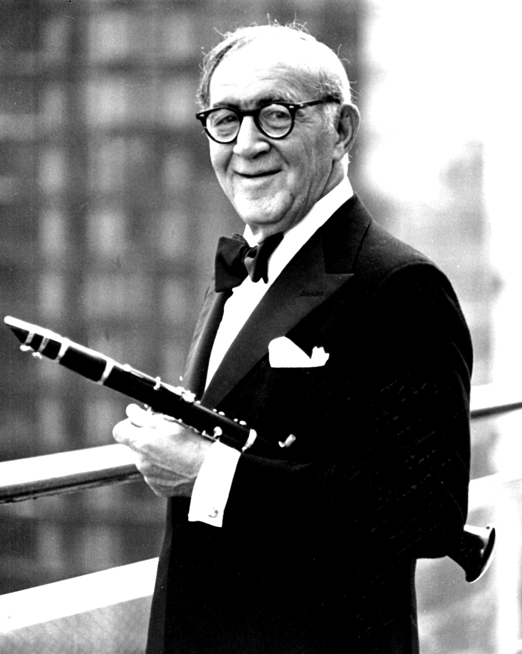 Publicity style candid photo of Benny Goodman.